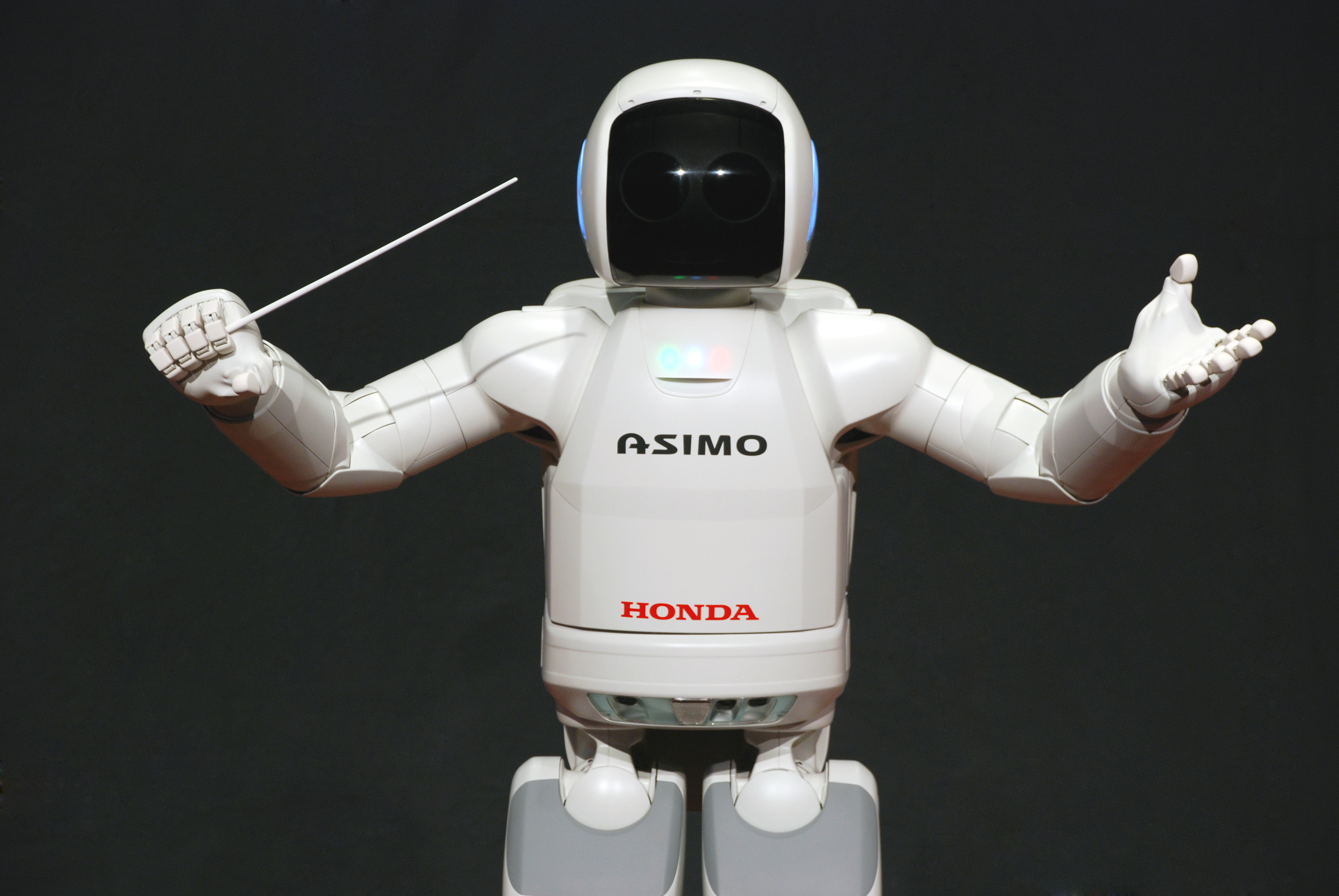 Honda ASIMO conducting an orchestra